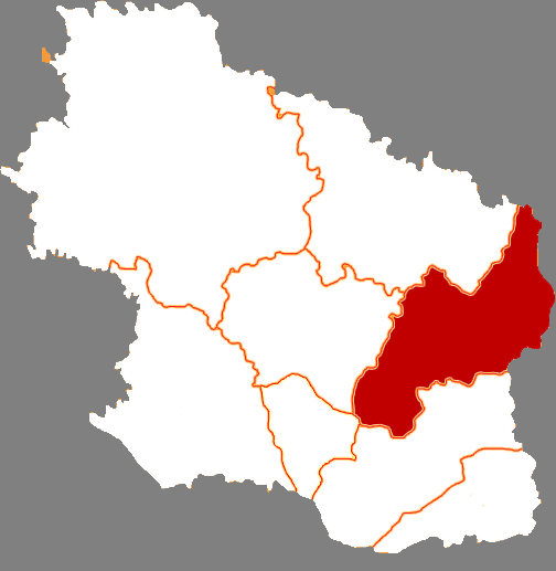 Location of Heshui county in Qingyang city, China